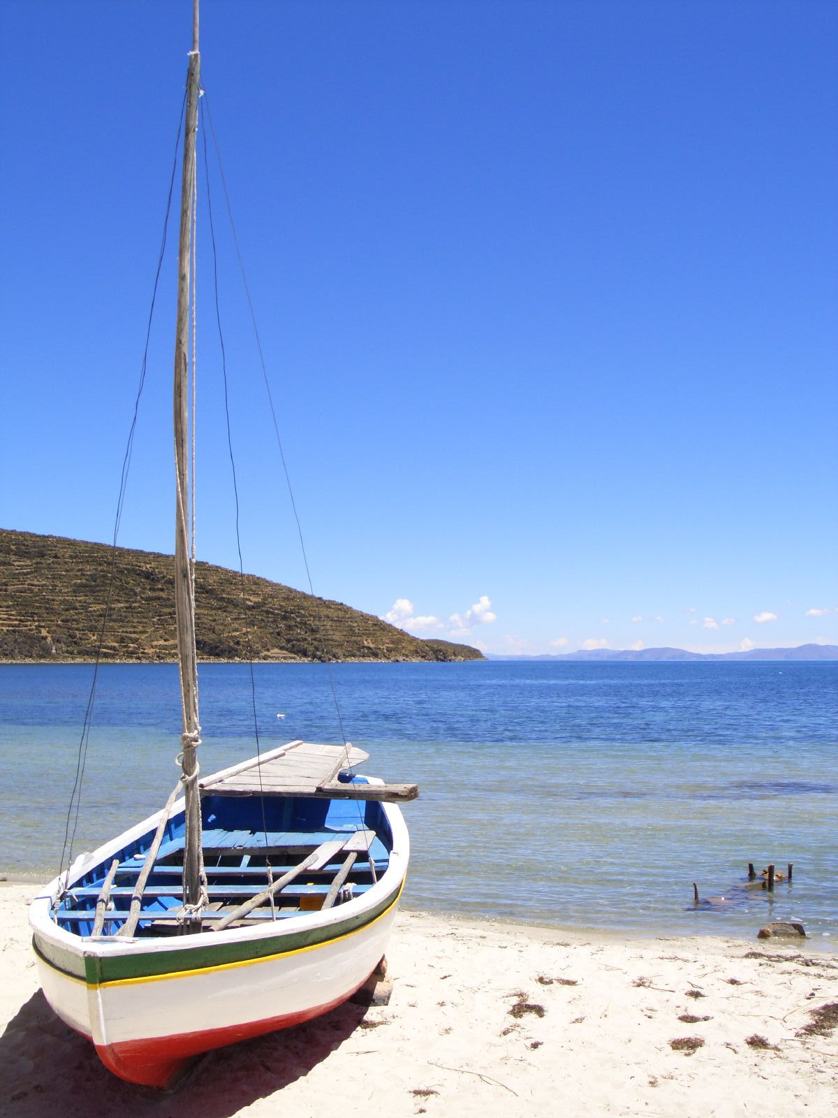 We went on a boat from Copacabana to the Isla Del Sol.